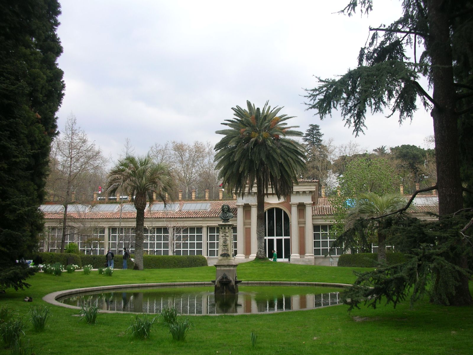 Monument to Carolus Linnaeus (1707–1778) at the Royal Botanical Garden of Madrid (Spain). Designed by architect José María Rubio Escudero and inaugurated in 1859.